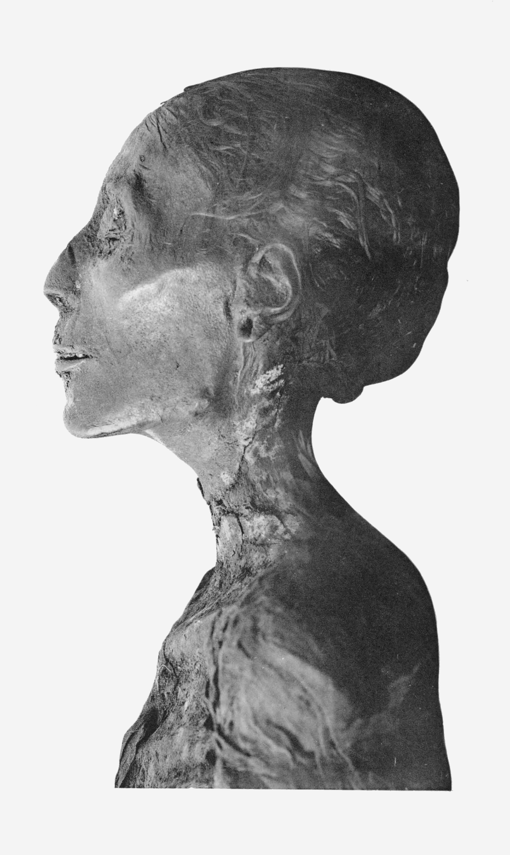 Head of mummy of parapoh Thutmose IV (profile view).